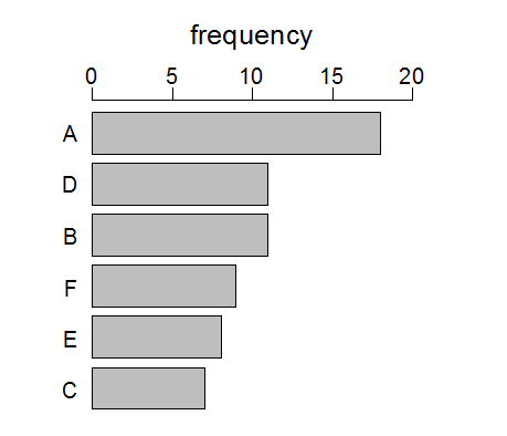 A simple horizontal bar chart